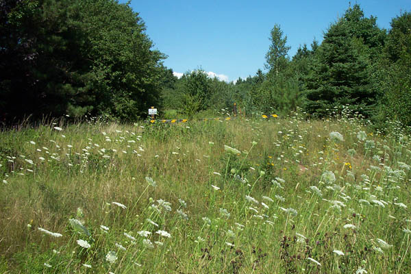 August 11, 2007 End of new section of the Confederation Trail